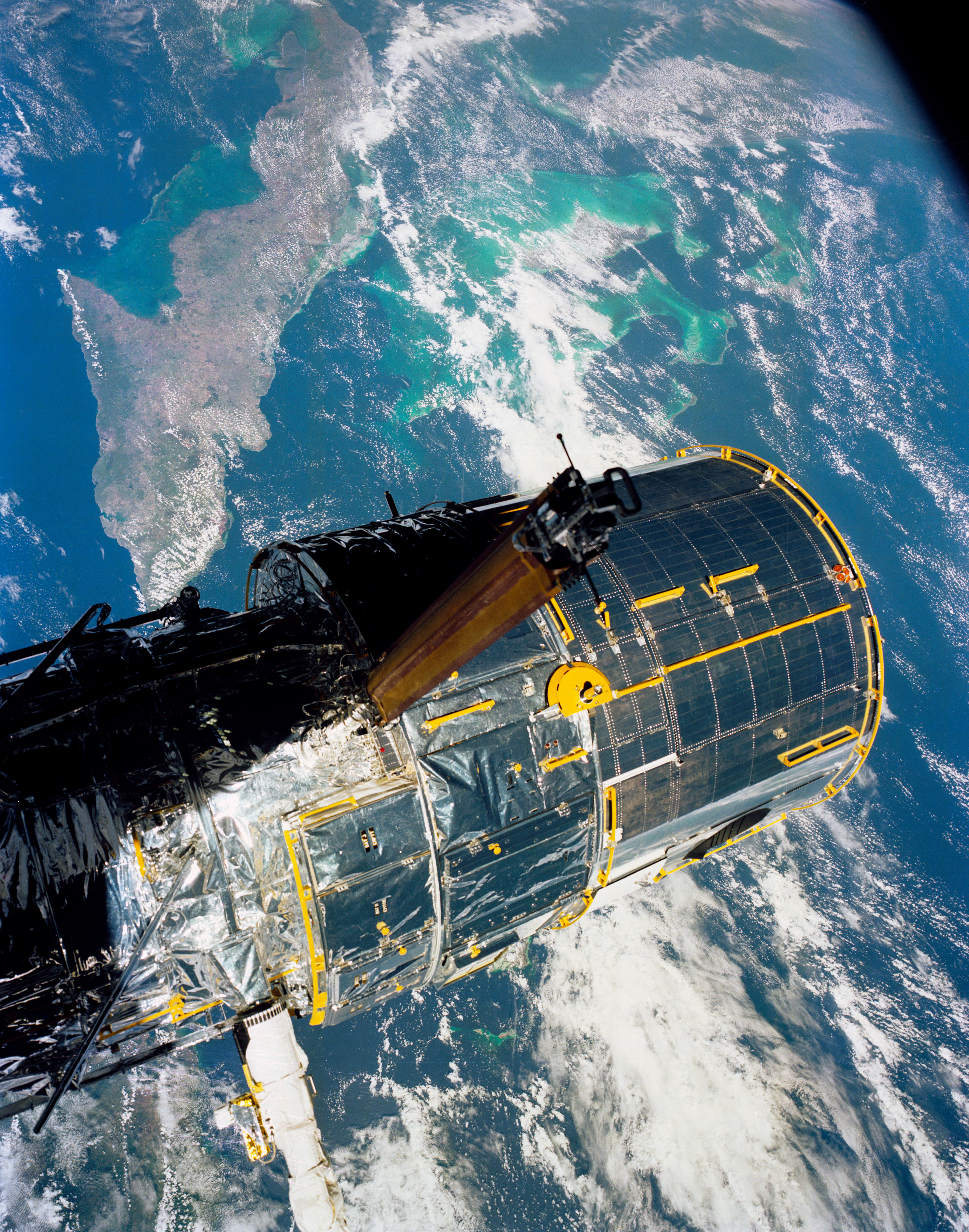 Hubble Space telescope passes over the Caribbean during its deployment from Discovery on mission STS-31.